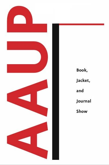 Widely regarded as an authoritative source on sound academic practice, the AAUP's Policy Documents and Reports, also known as the Redbook, contains the Association's major policy statements.